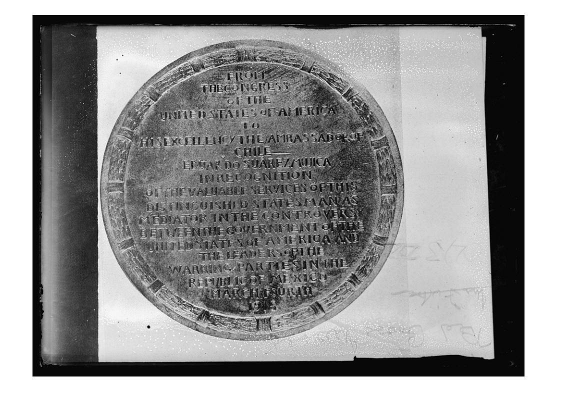 Inscription: From the Congress of the United States of America to his excellency, the Ambassador of Chile: Eduardo Suarez Mujica, in recognition of the valuable services of this distinguished statesman as mediator in the controversy between the government of the United States of America and the leaders of the warring parties in the Republic of Mexico, March fourth, 1915